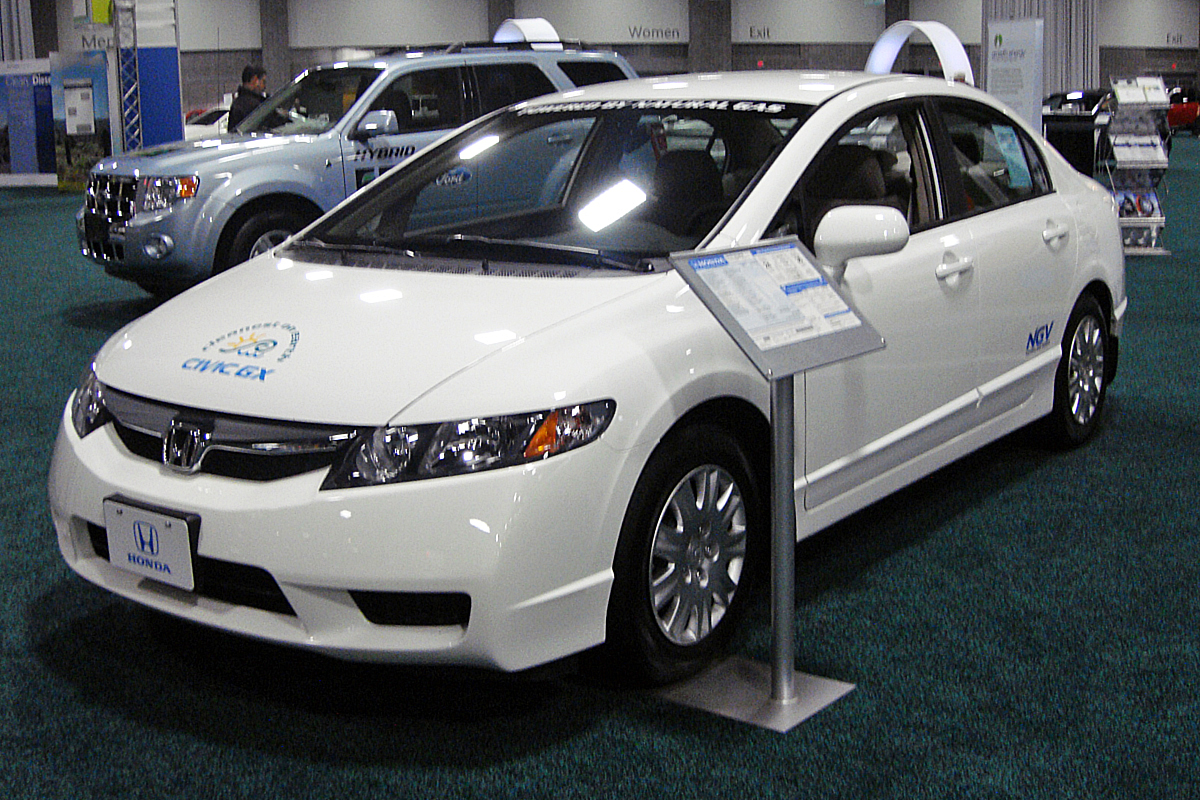 2010 Honda Civic GX NGV (Natural Gas Vehicle) at the 2010 Washington Auto Show (D.C.)